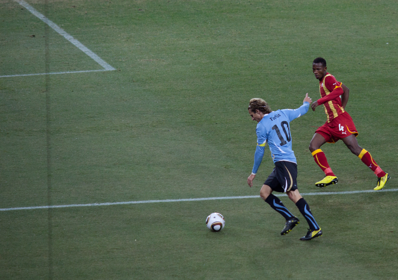 Forlan with the ball during the Uruguay - Ghana game for the 2010 FIFA World Cup quarterfinals. On the right, John Pantsil.